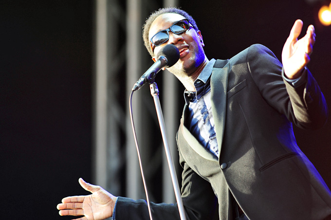 Southbound Festival 2012